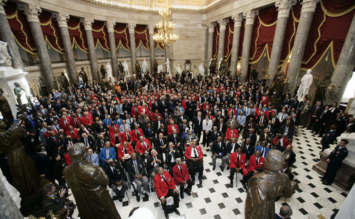 US President George W. Bush and Speaker of the House of Representatives Nancy Pelosi stand amidst 300 Tuskegee Airmen during a Congressional Gold Medal Ceremony on Thursday, March 29, 2007, in the National Statuary Hall at the U.S. Capitol.